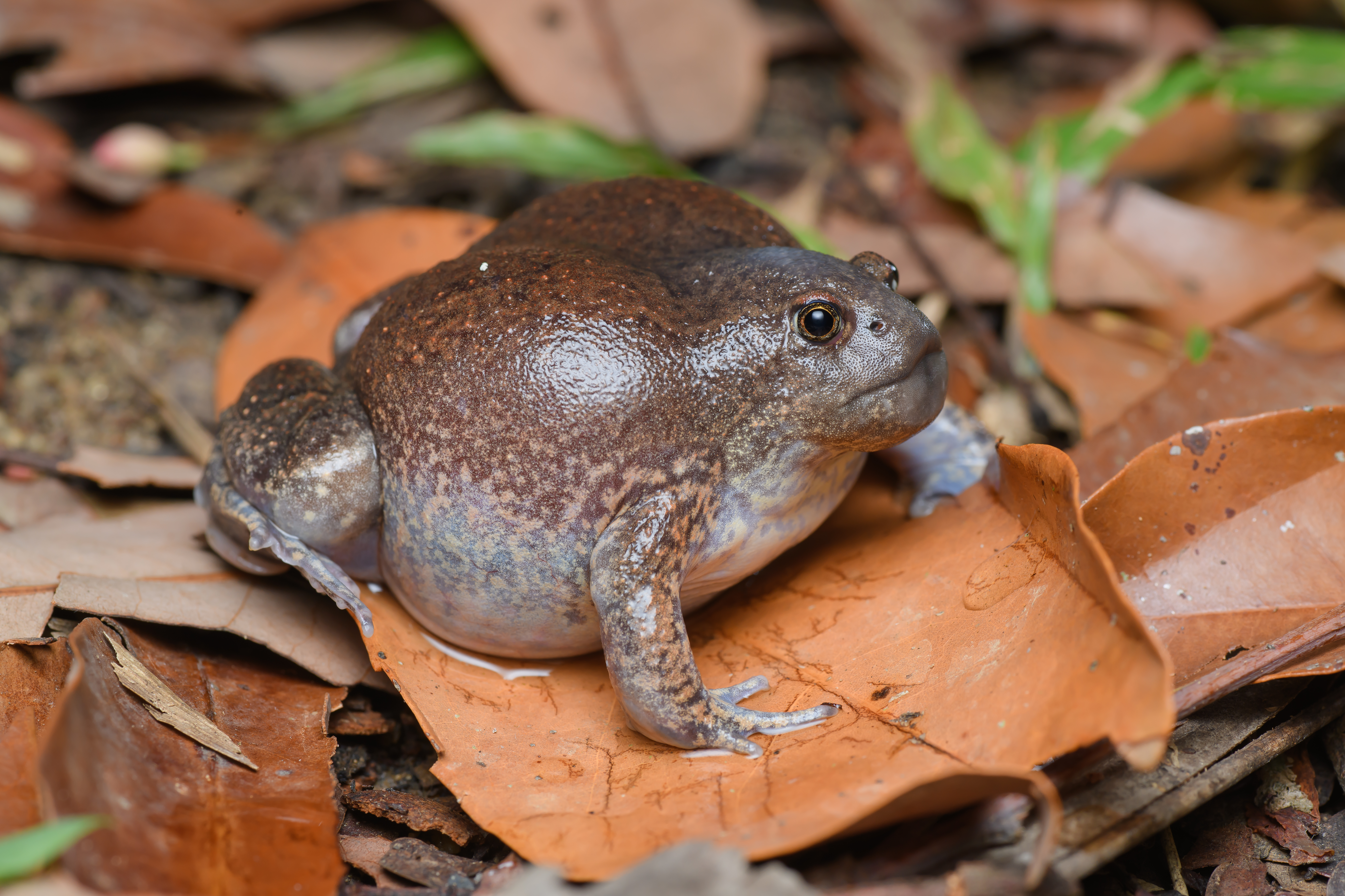 Blunt-headed burrowing frog - Mueang Loei District, Loei Province